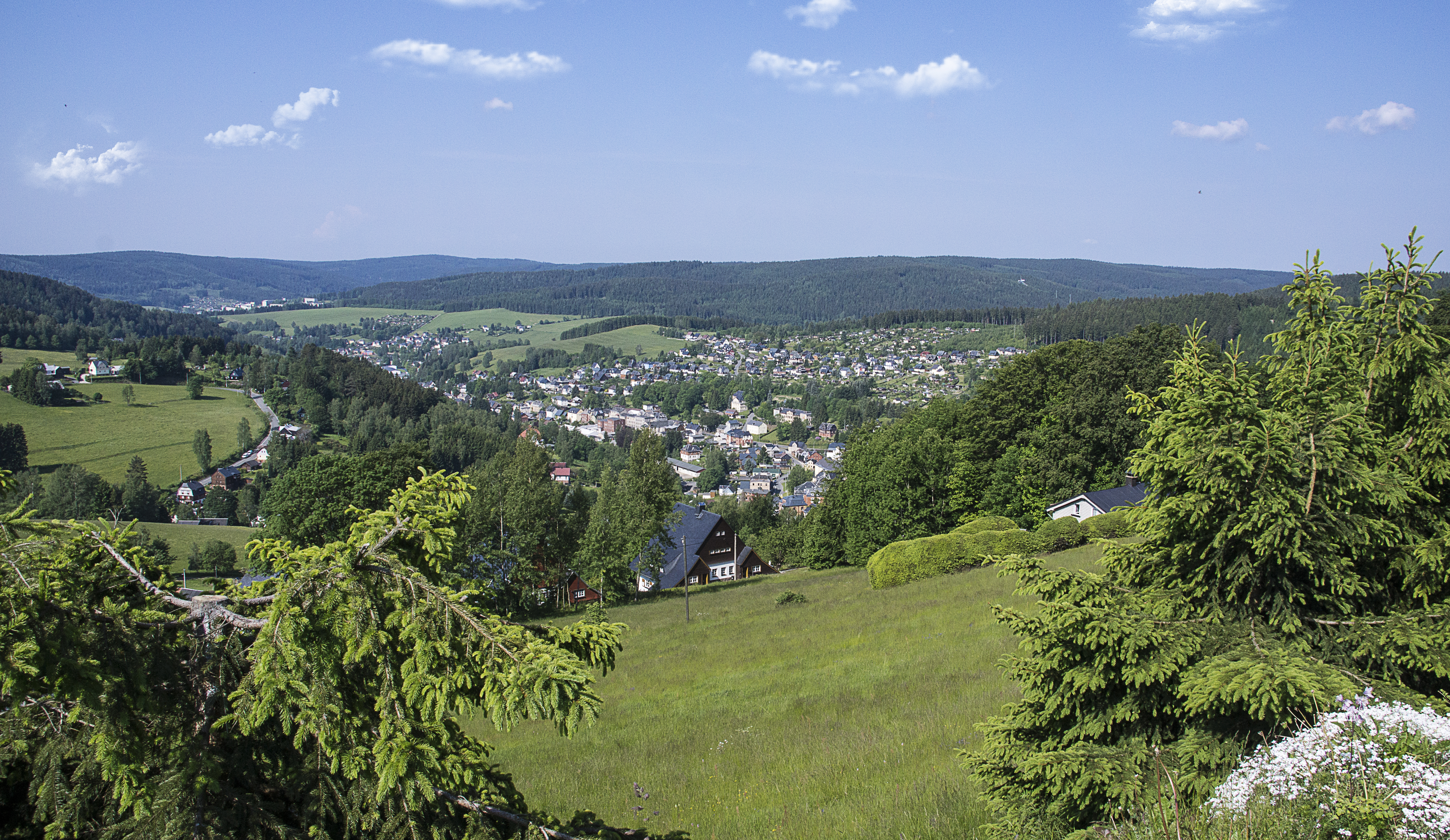 A view from the Aschberg (Mt. Ashes) down onto Klingenthal/Vogtland Westsaxony Germany